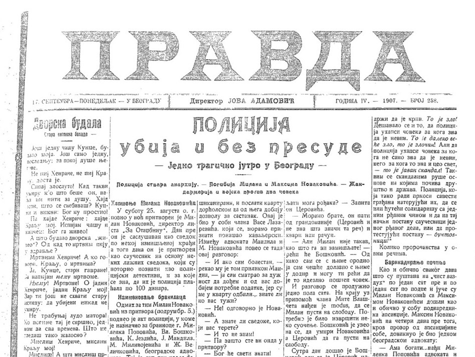 Front page of "Pravda" newspapers in Serbia from 1907-09-30.